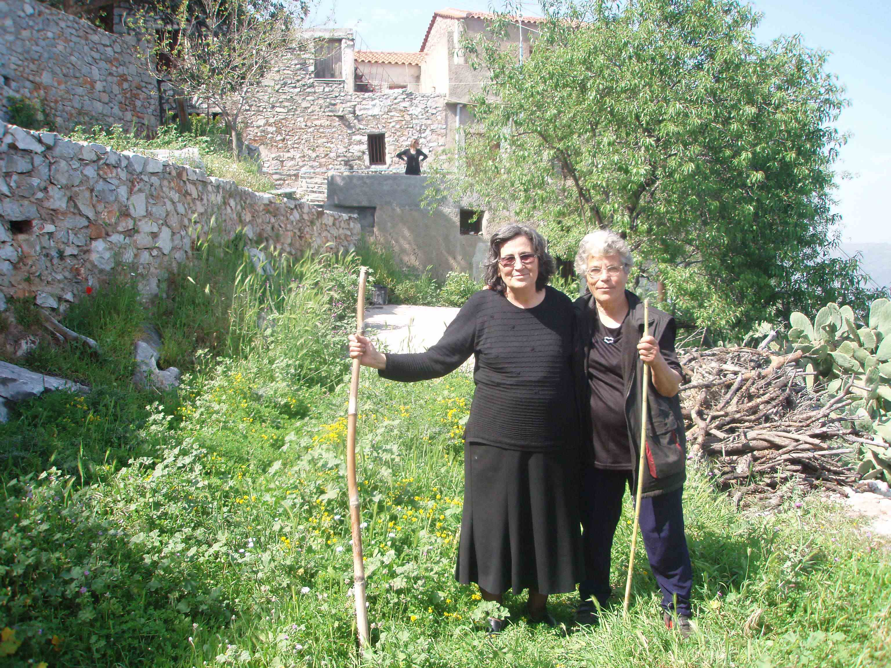 women of the Mani region in Peloponissos Greece